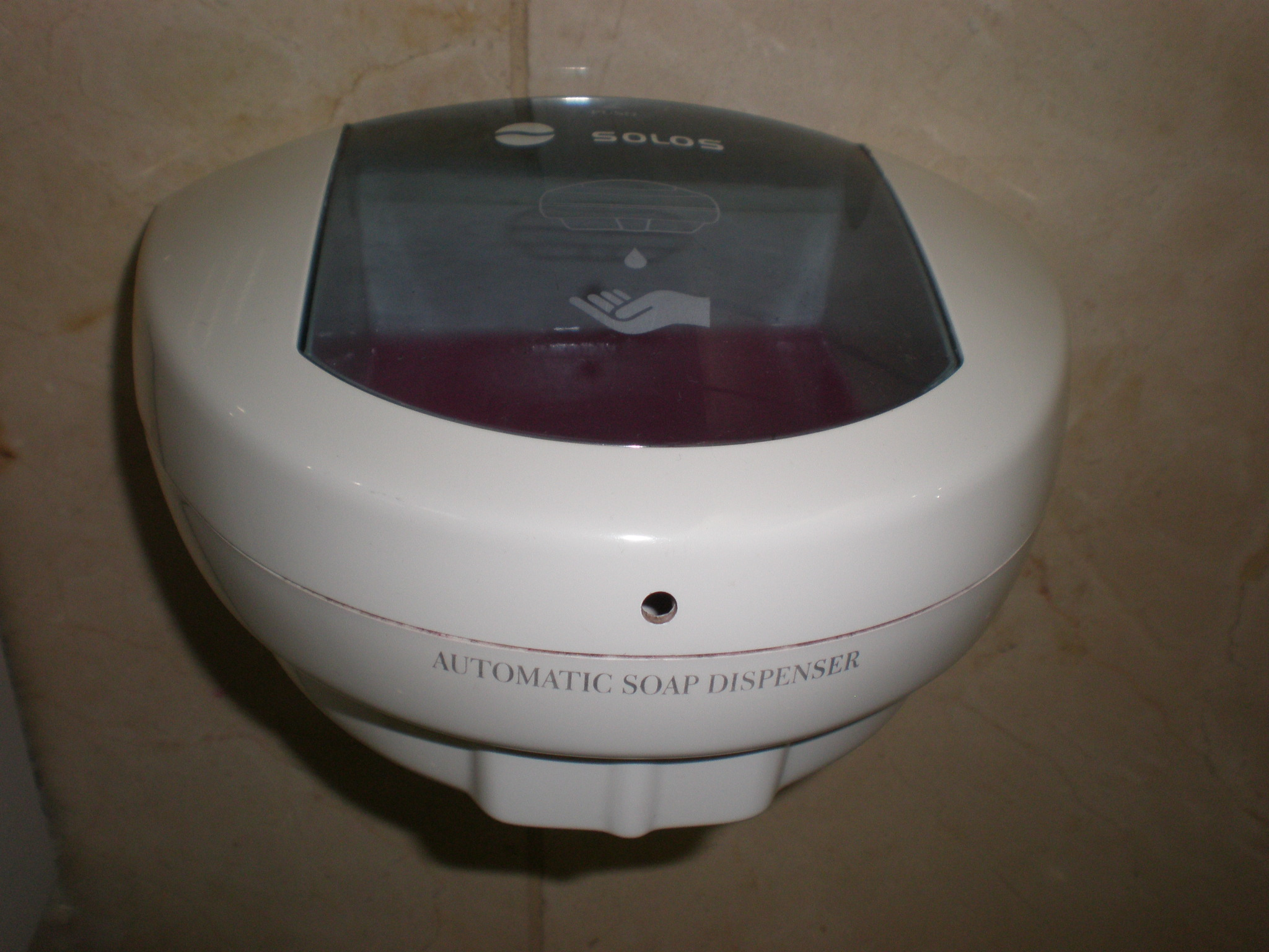 A Solos automatic soap dispenser found in a bathroom of the Kunming Hotel in Kunming, Yunnan, PRC.